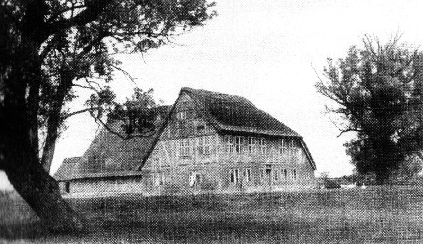 Old photo of the estate Hollander Höfe (Höben) in Brobergen. Image from family’s picture inventory